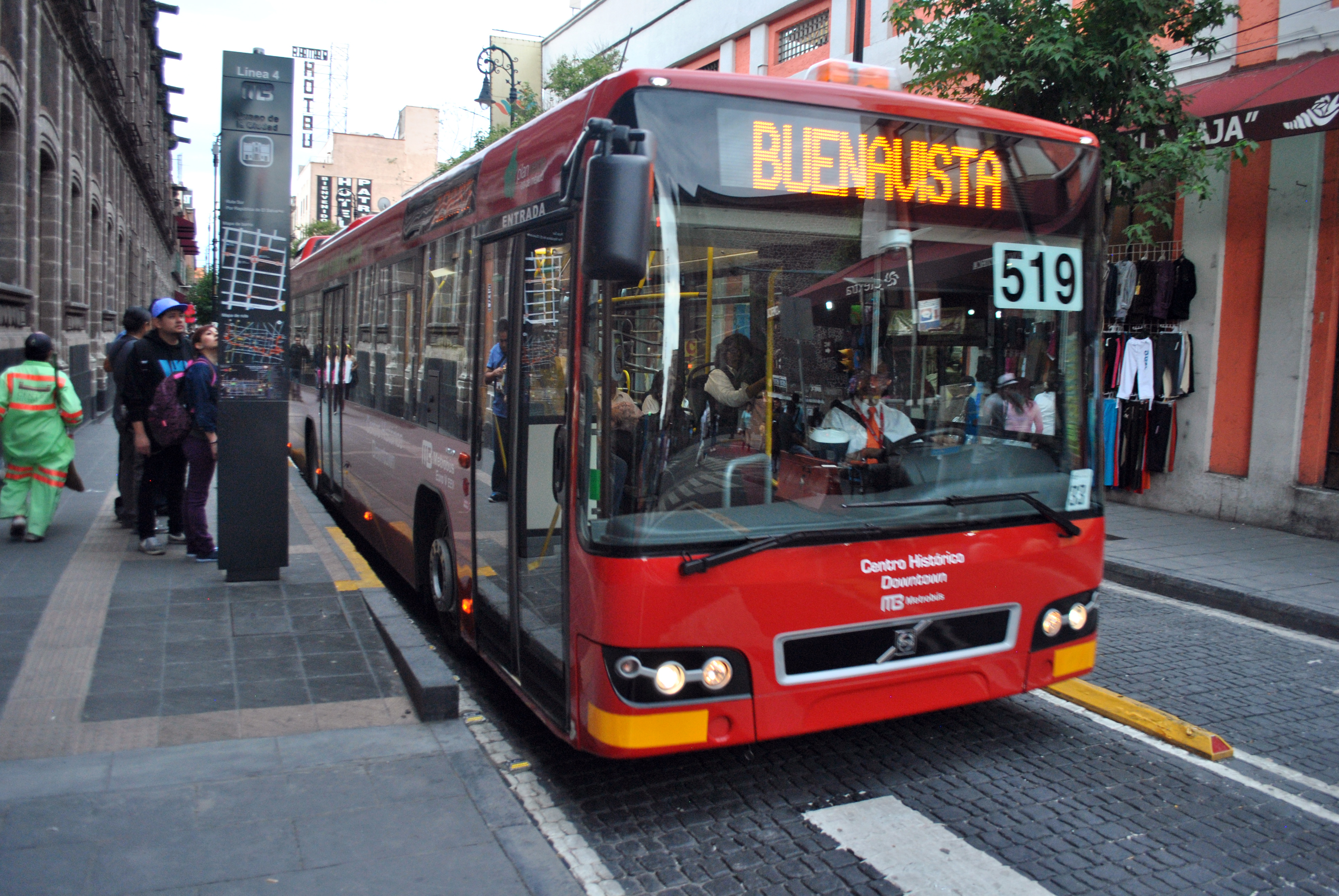 Metrobus Line 4, Mexico City Museum station.